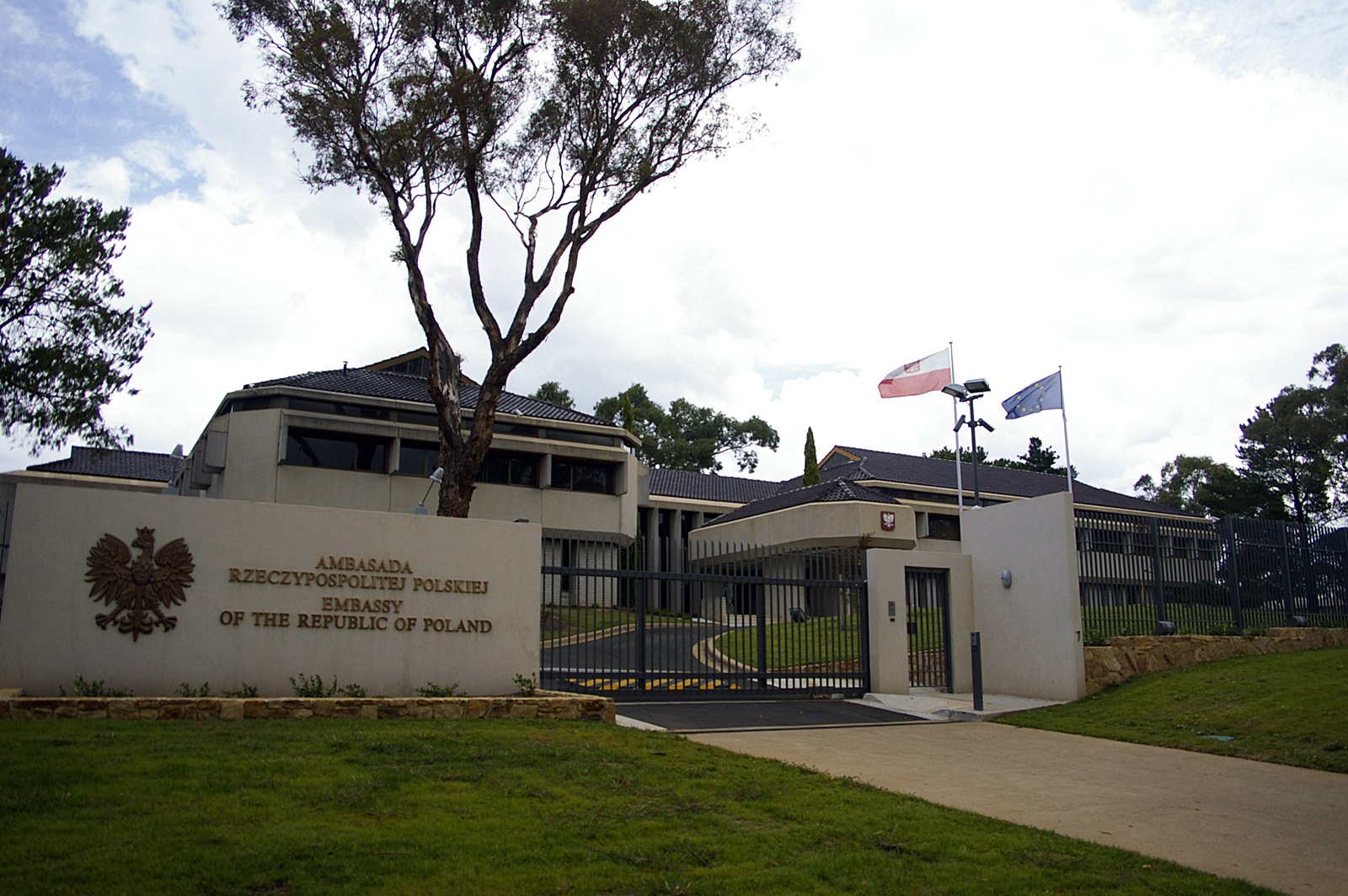 Embassy of the Republic of Poland located in the Canberra suburb of Yarralumla, Australian Capital Territory, Australia.